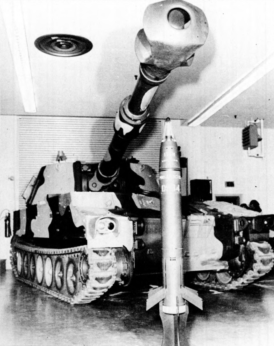 Prototype model of the Army’s 155mm CLGP (cannon-launched guided projectile) with an M109A1 self-propelled howitzer at Fort Sill, Oklahoma